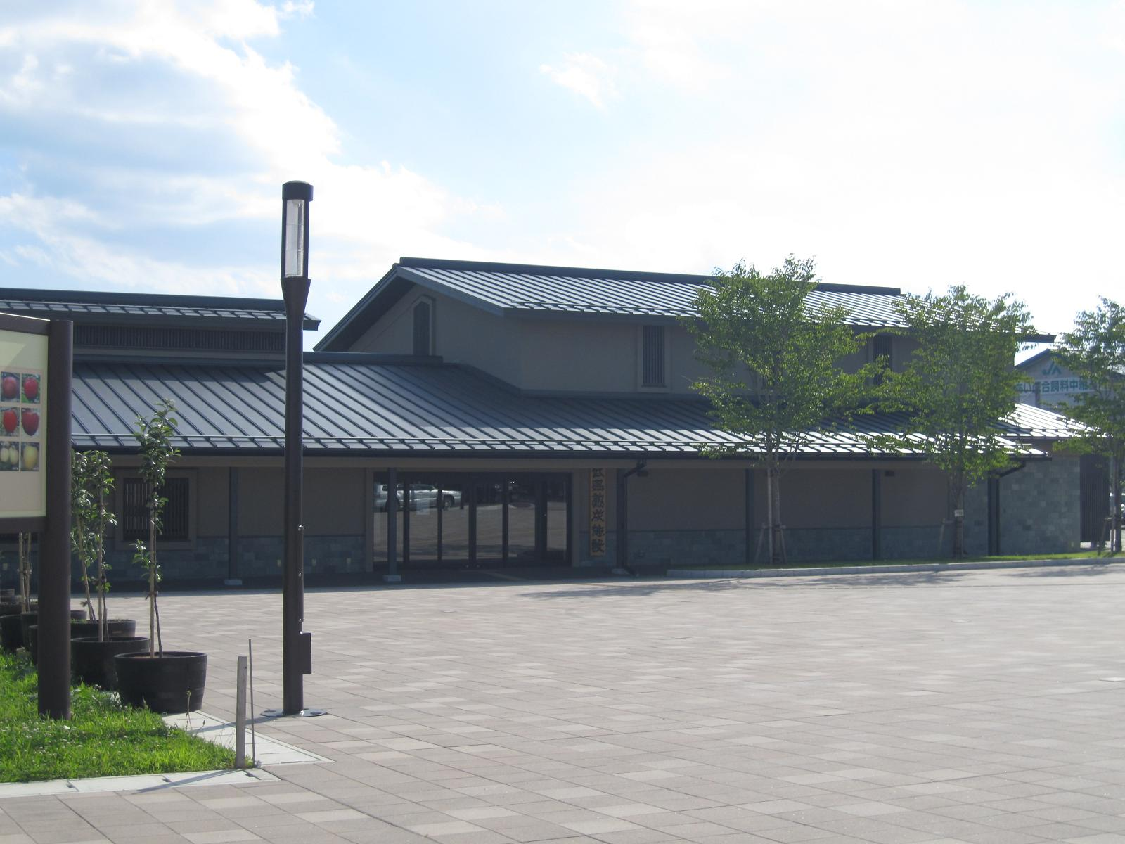 Facilities for maturation and cold storage of apples in Namioka Station